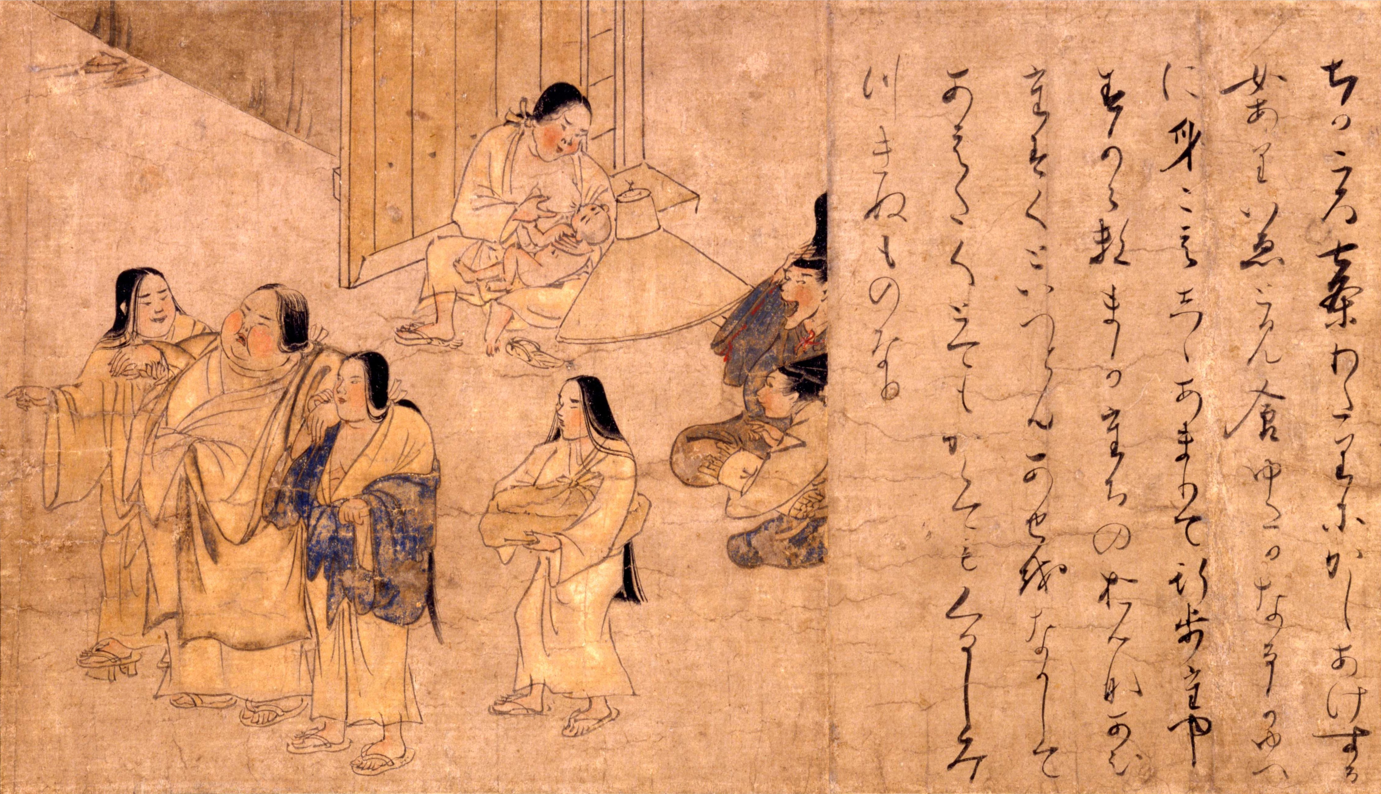 Corpulent woman from Yamai no soshi (Scroll of Diseases and Deformities), Fukuoka Art Museum